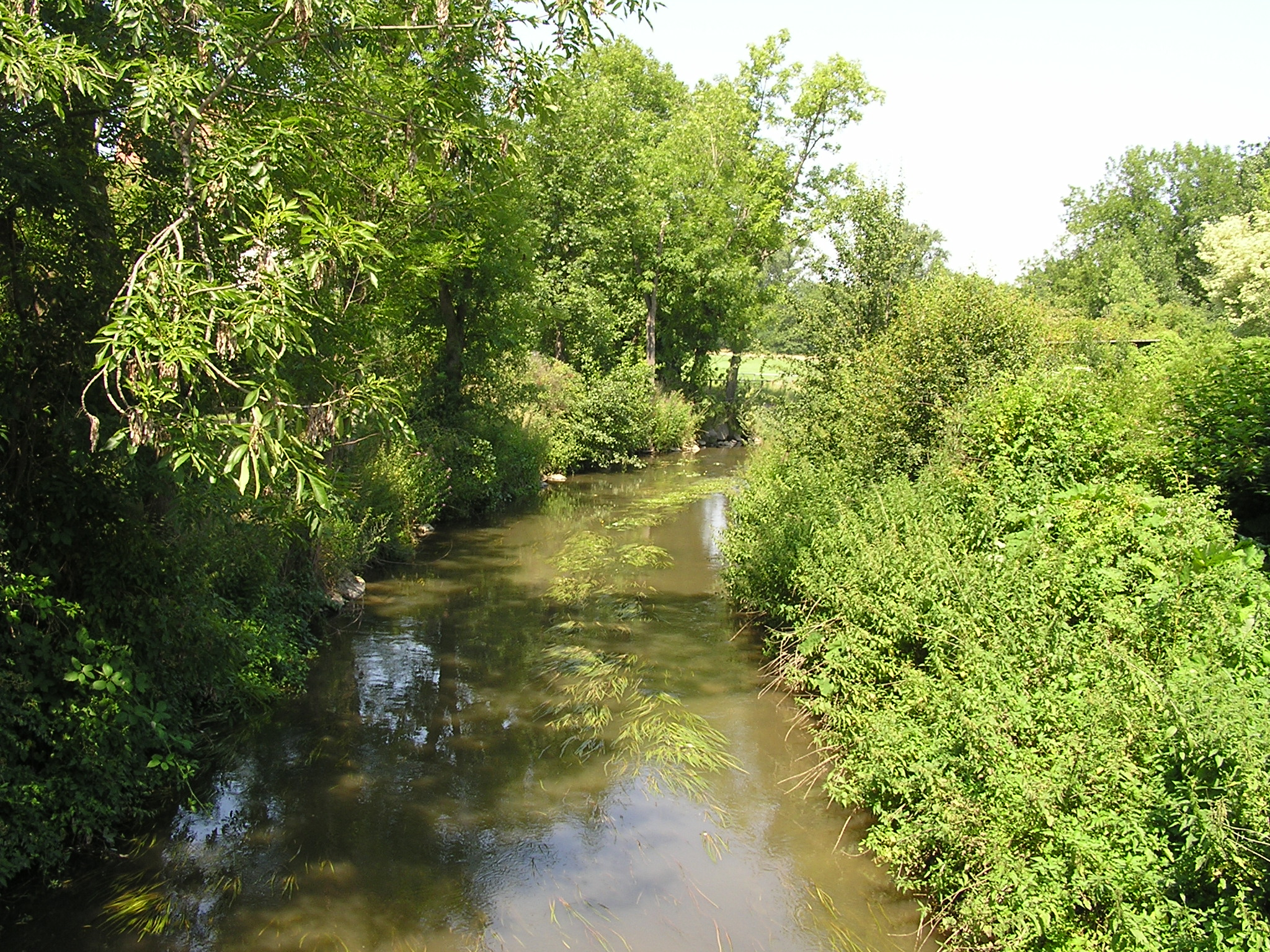 The Wetter at Bad Nauheim